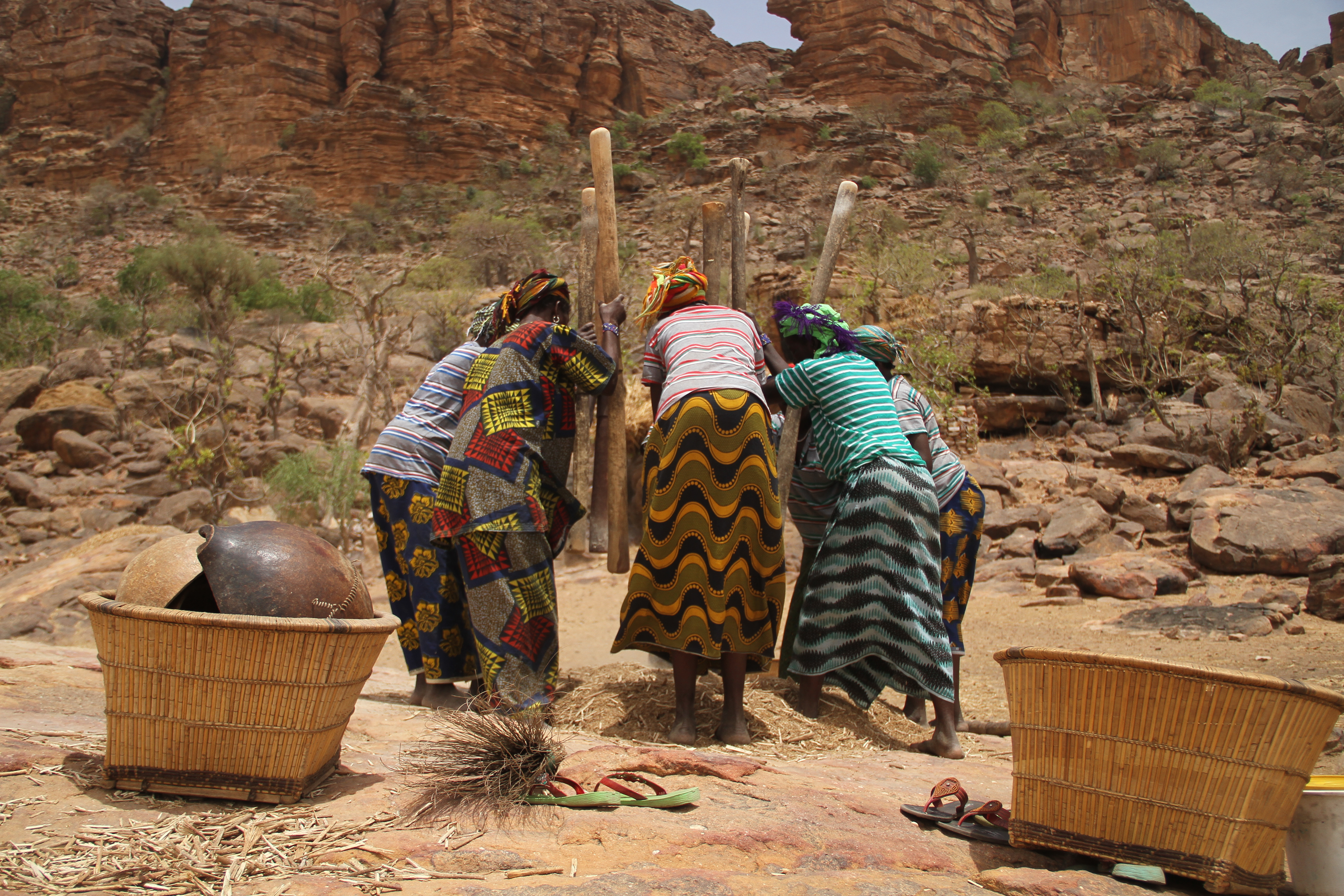 Femmes au travail en Pays Dogon, pilant du céréale This is an image of "African people at work" from Mali